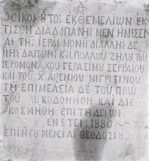 Ascention Church in Neo Souli Inscription